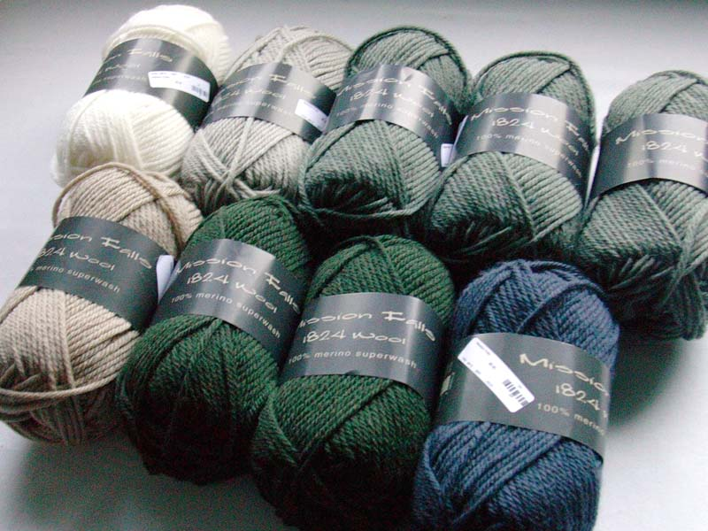 Several packages of yarn